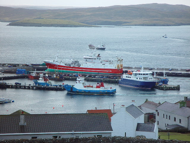 Symbister Harbour, Whalsay. Ferries and Pelagic Fishing Boats at Symbister harbour, Whalsay